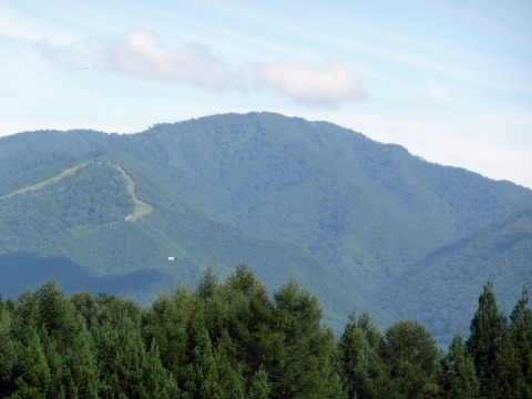 Mount Kawanage (Kawanage-dake) seen from the WNW, in the border of between Akita and Iwate prefectures, Japan.